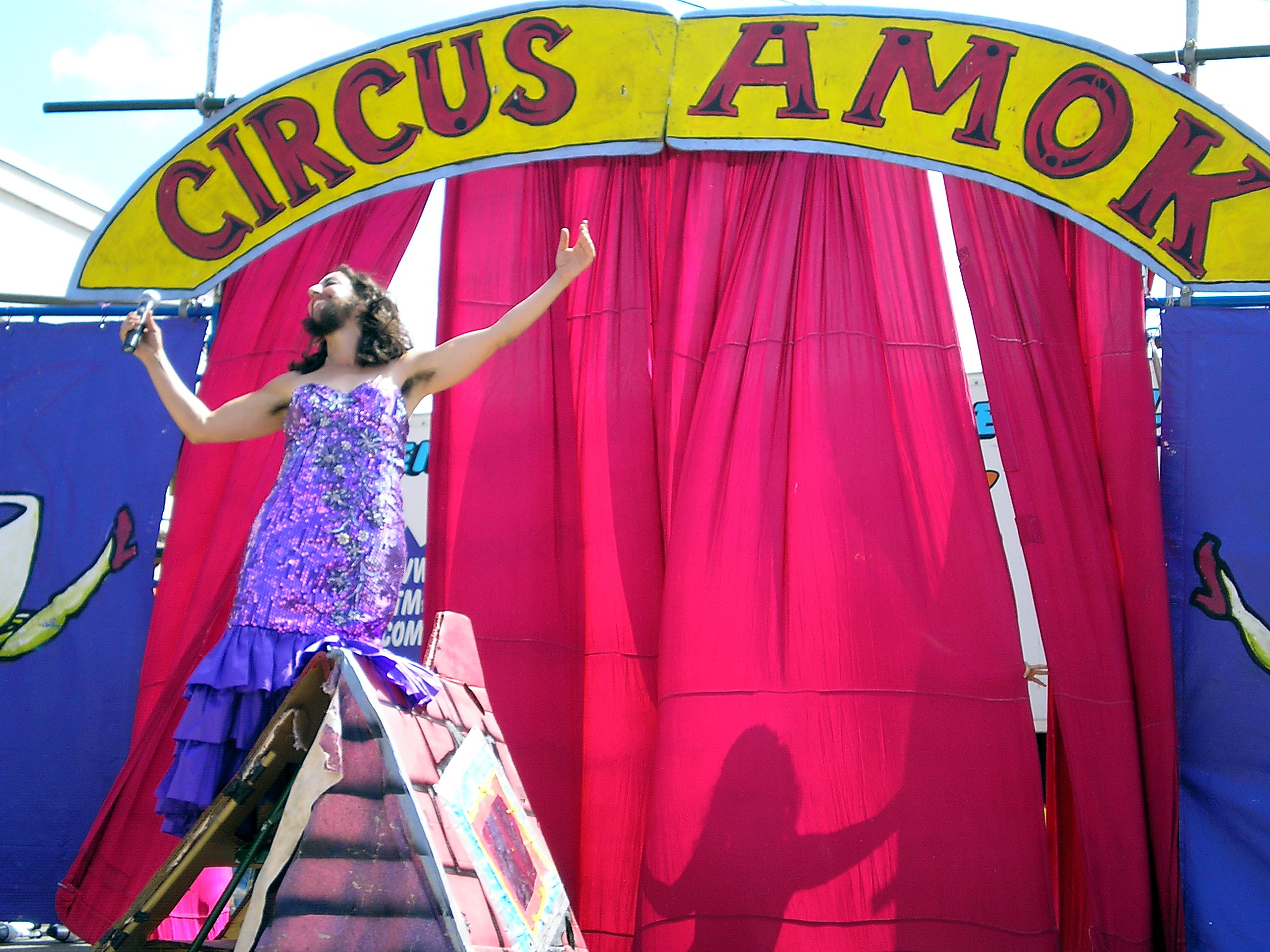 Jennifer Miller by David Shankbone, New York City